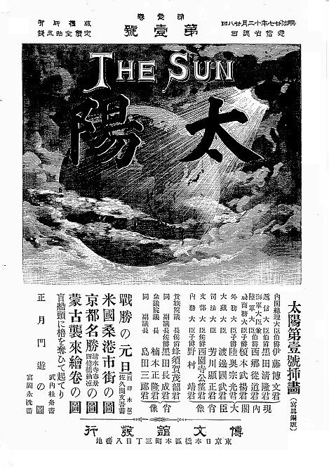 Taiyō was a Japanese general magazine issued from January 1895 - till February 1928, which publisher was Hakubunkan.